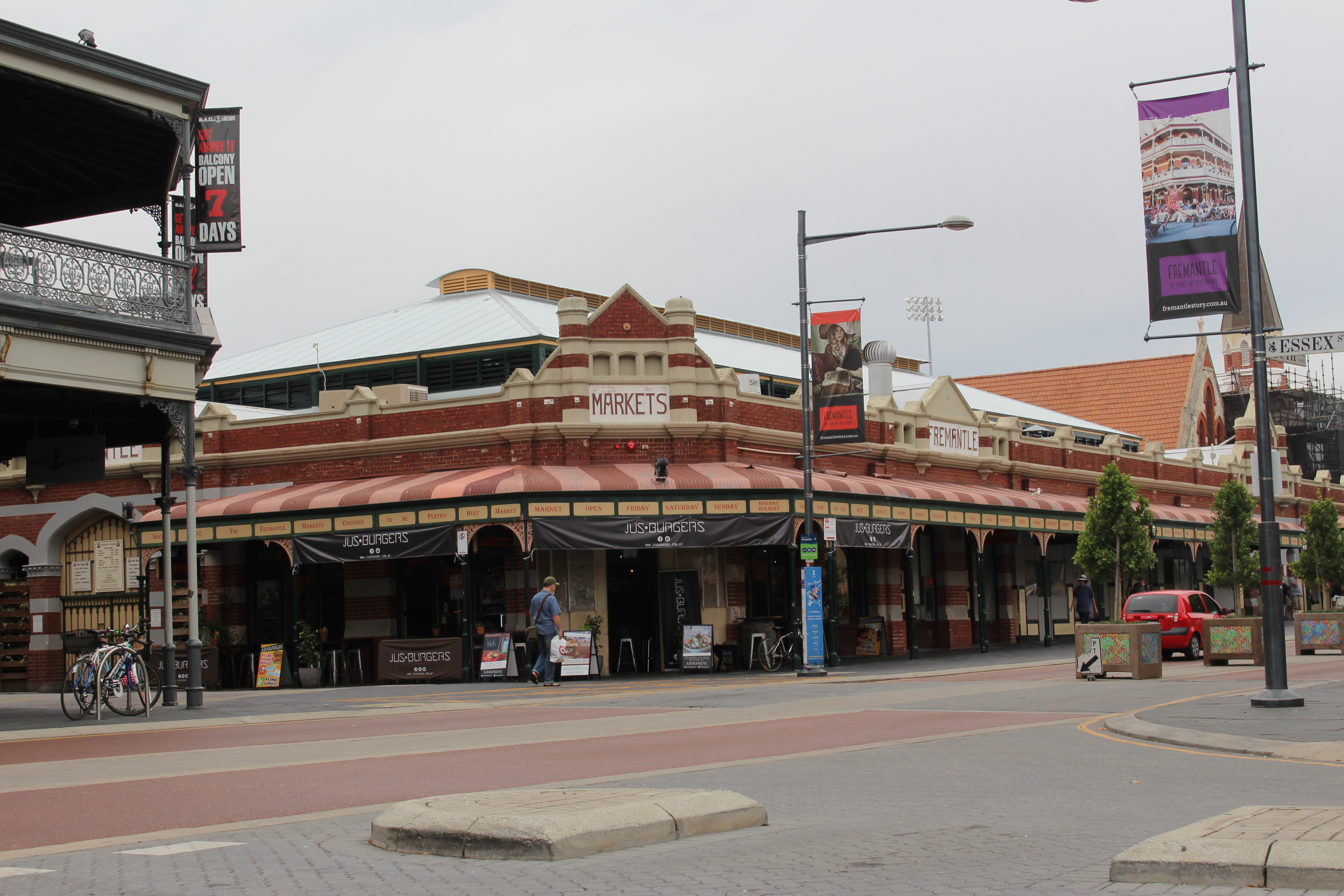 Fremantle Markets as of 2015